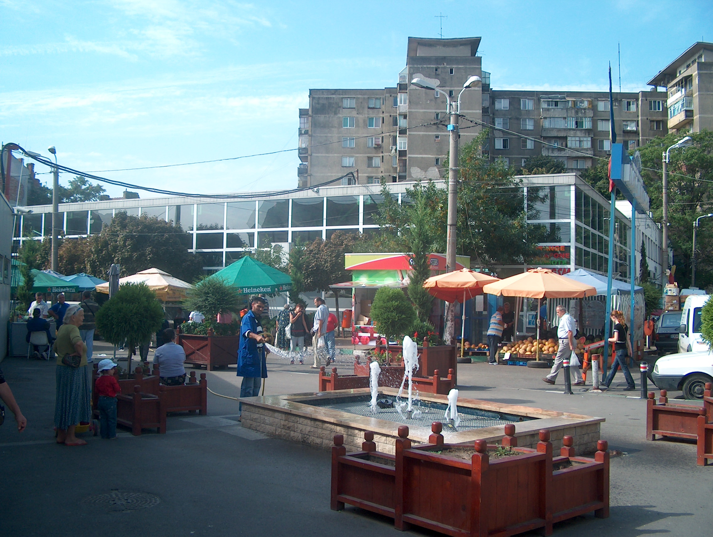 open-market Matache in Bucharest, Romania